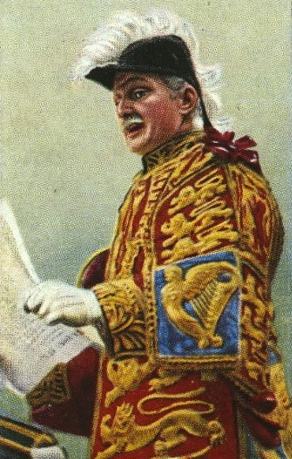 Player's cigarettes. Coronation series, ceremonial dress: Algar Howard, the Norroy King of Arms (cropped from original)